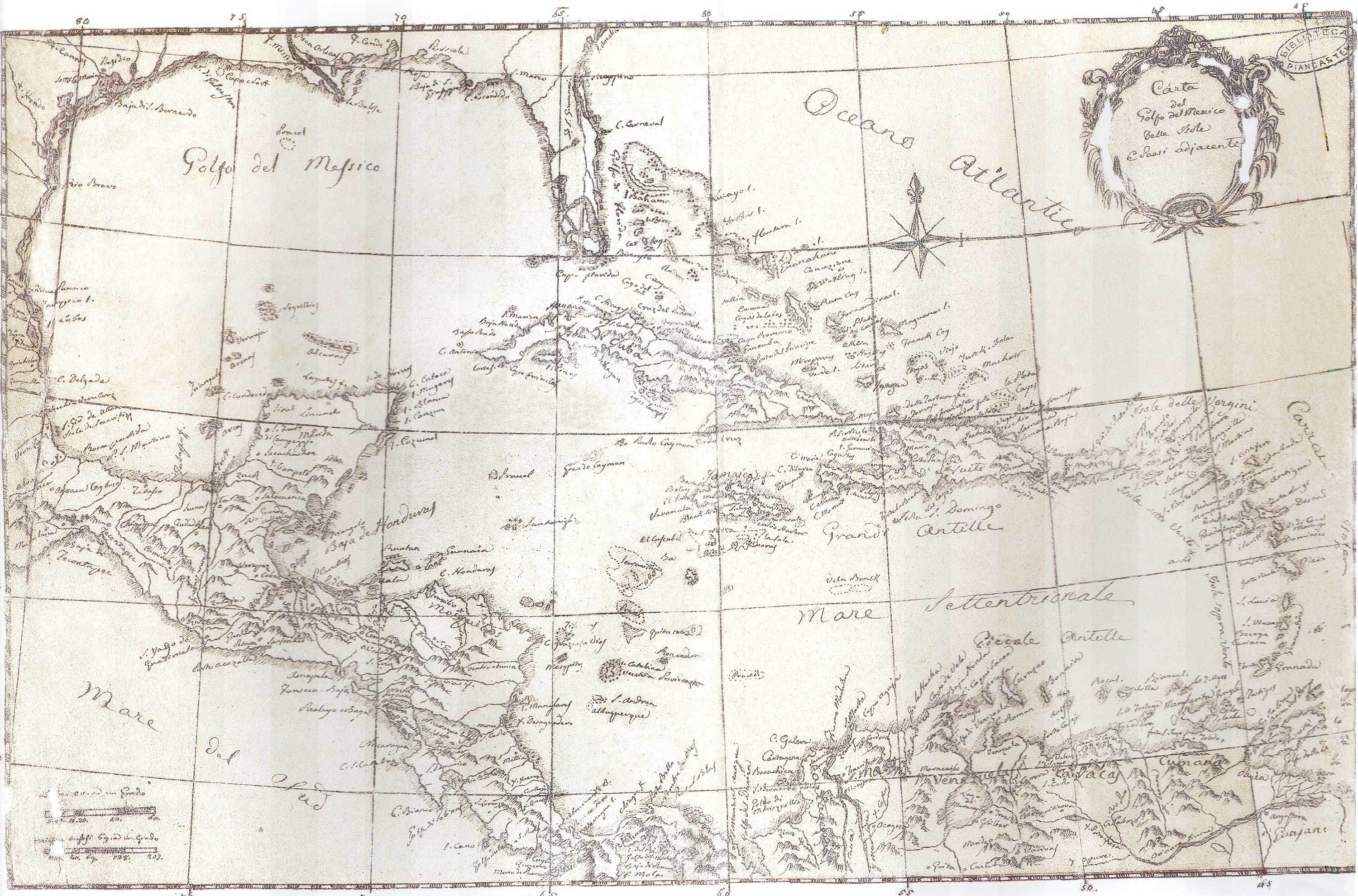 A. Codazi, Map of Antillas`s Sea and Mexican Gulf